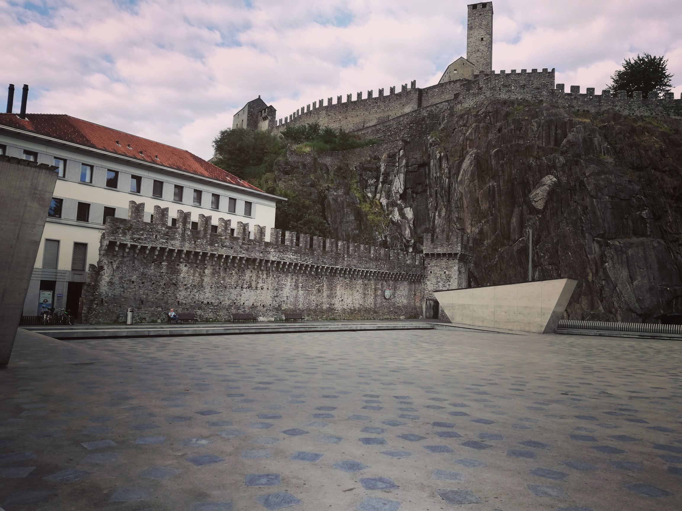 Piazza del Sole: public square in Bellinzona, Switzerland, right next to Castel Grande UNESCO World Heritage Site. Project by Swiss architect Livio Vacchini